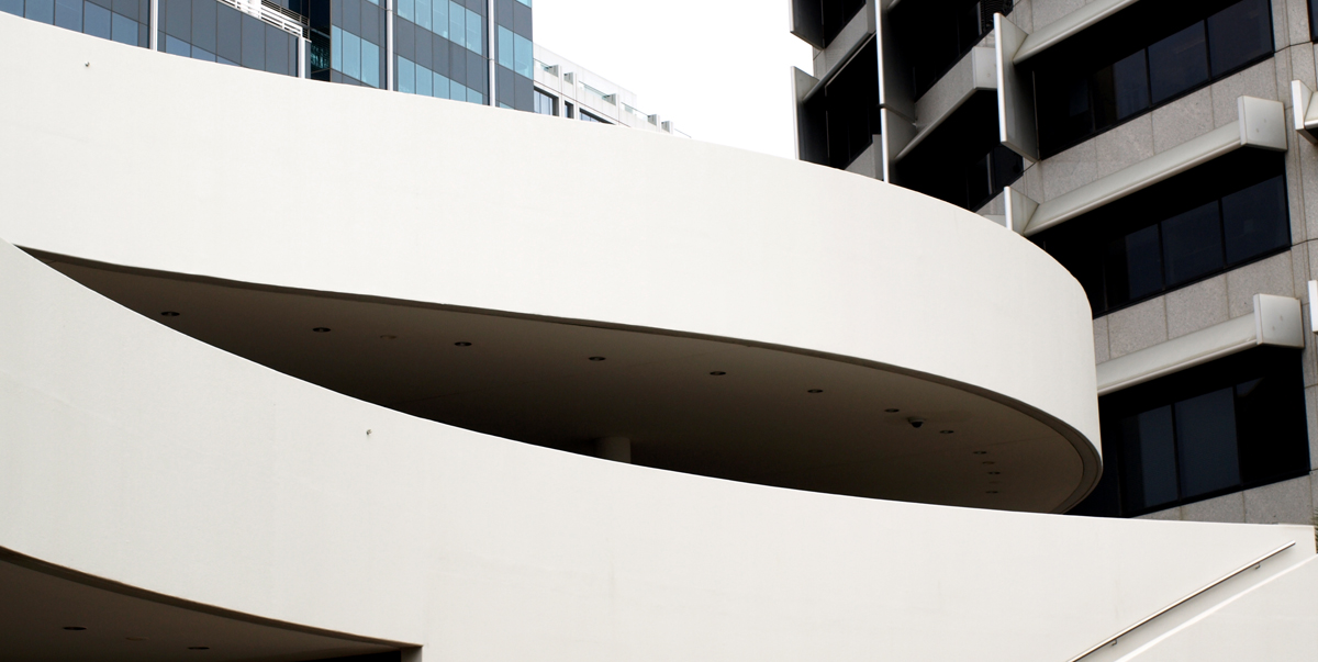 Detail of the curved architecture surrounding the plaza of QV1, a skyscraper in Perth, Western Australia. The project was designed by architect Harry Seidler.